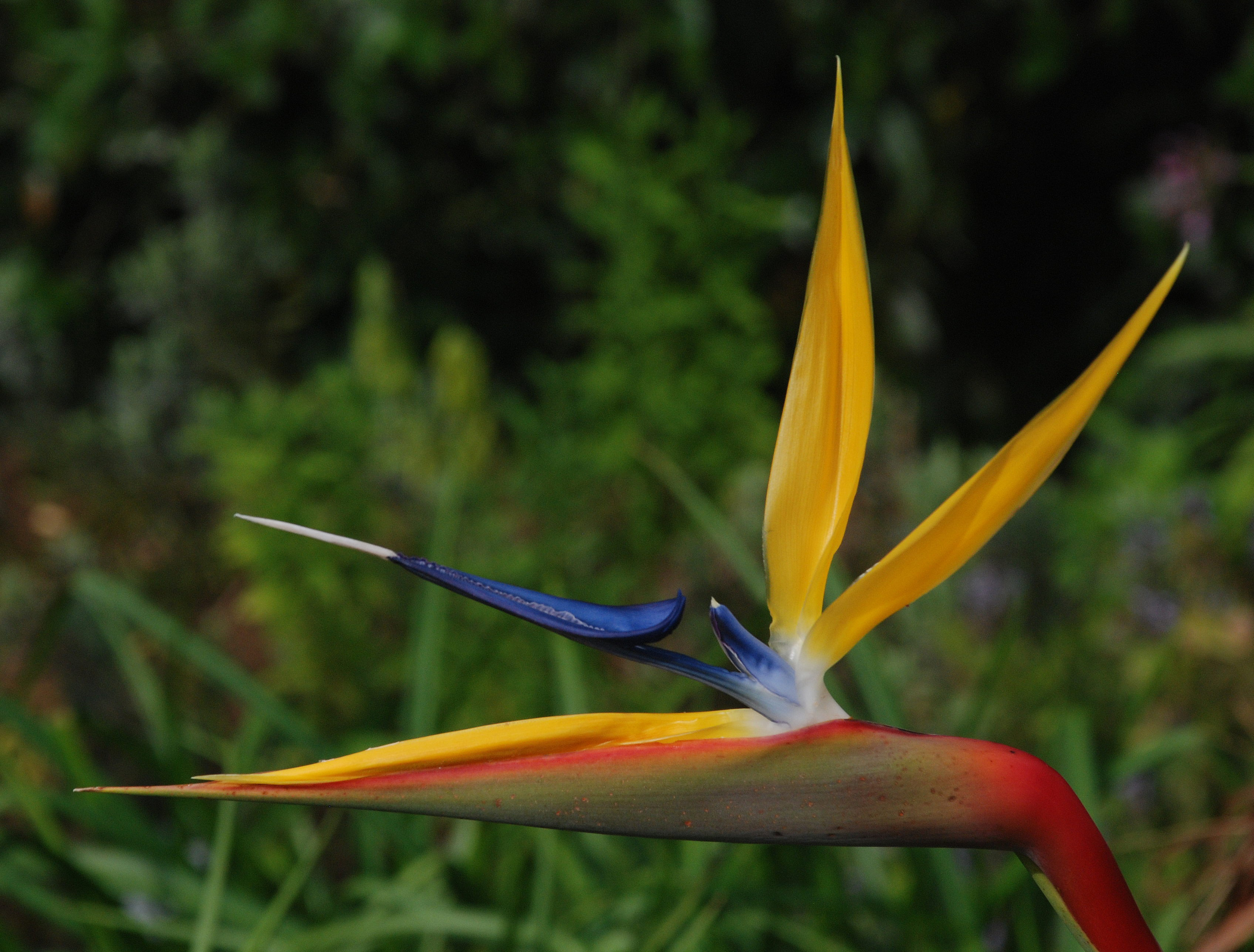 Strelitzia reginae flower, taken in Cape Town botanical garden